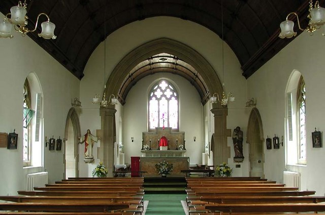 Inside the Roman Catholic church of St Richard of Chichester, Buntingford, Hertfordshire, looking east to the chancel